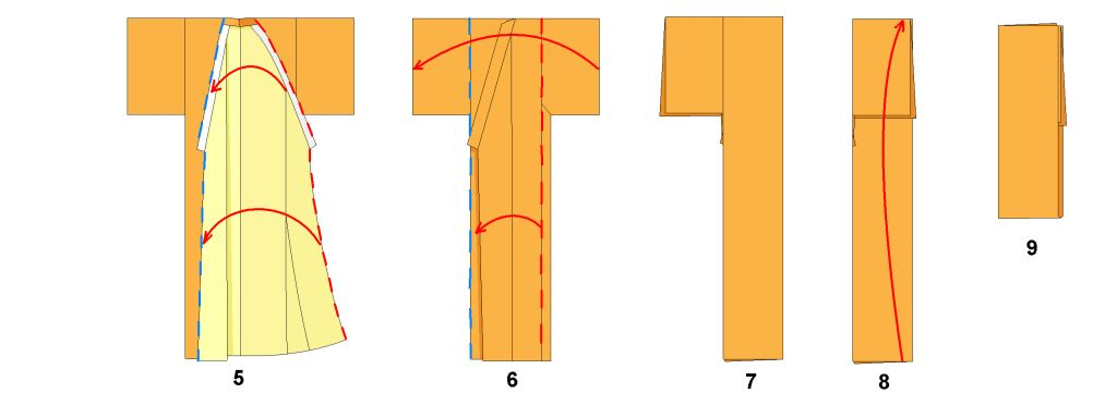 How to fold a kimono part 2